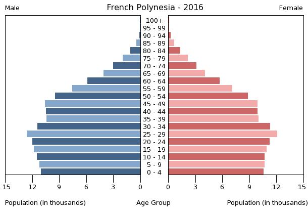 The population pyramid of French Polynesia illustrates the age and sex structure of population and may provide insights about political and social stability, as well as economic development. The population is distributed along the horizontal axis, with males shown on the left and females on the right. The male and female populations are broken down into 5-year age groups represented as horizontal bars along the vertical axis, with the youngest age groups at the bottom and the oldest at the top. The shape of the population pyramid gradually evolves over time based on fertility, mortality, and international migration trends.